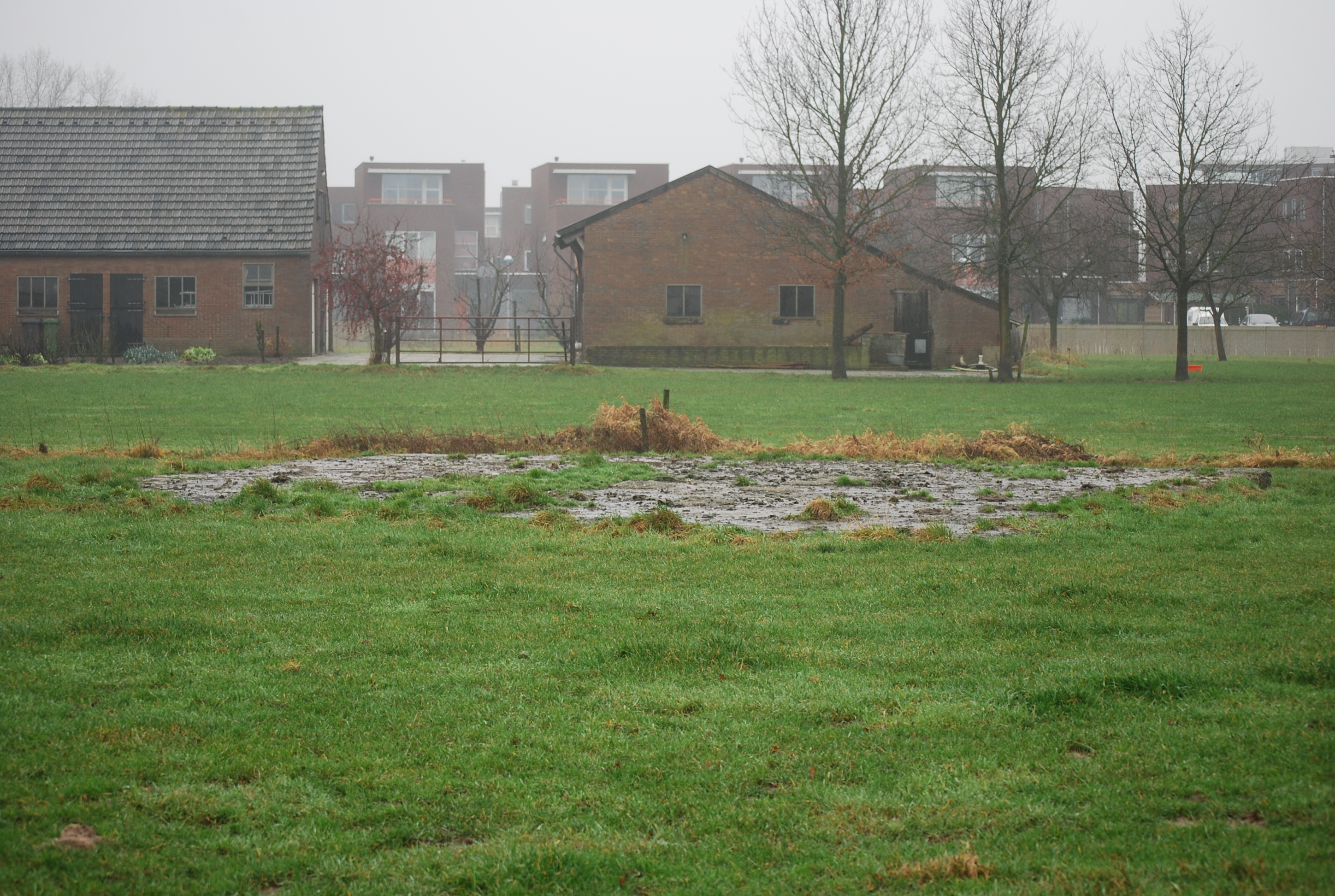 Concrete floor of a german bunker type 703. Build in 1945 but never finished.